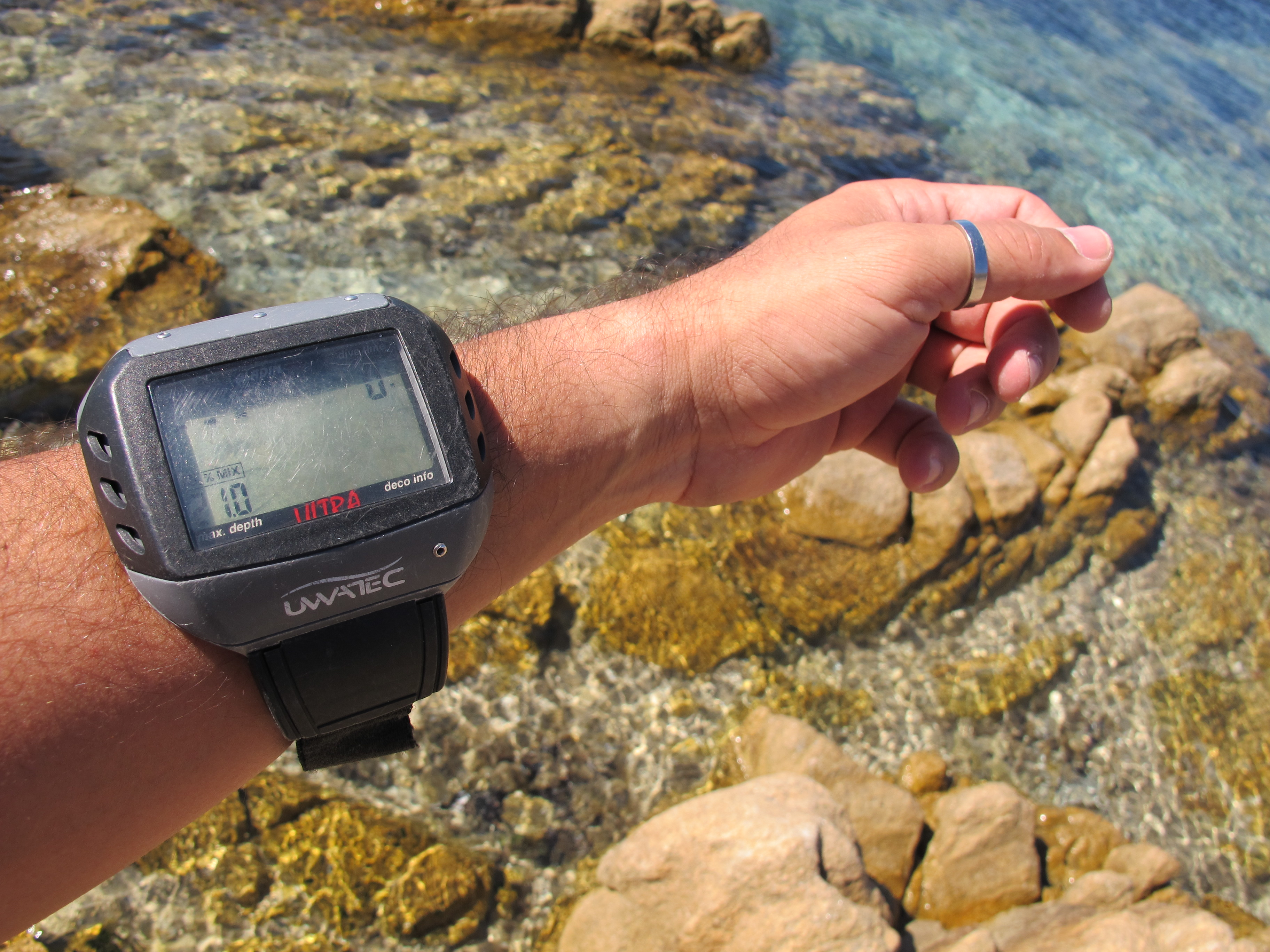 A scuba dive computer / watch to track depth, dive time, time to decompression and many more parameters.